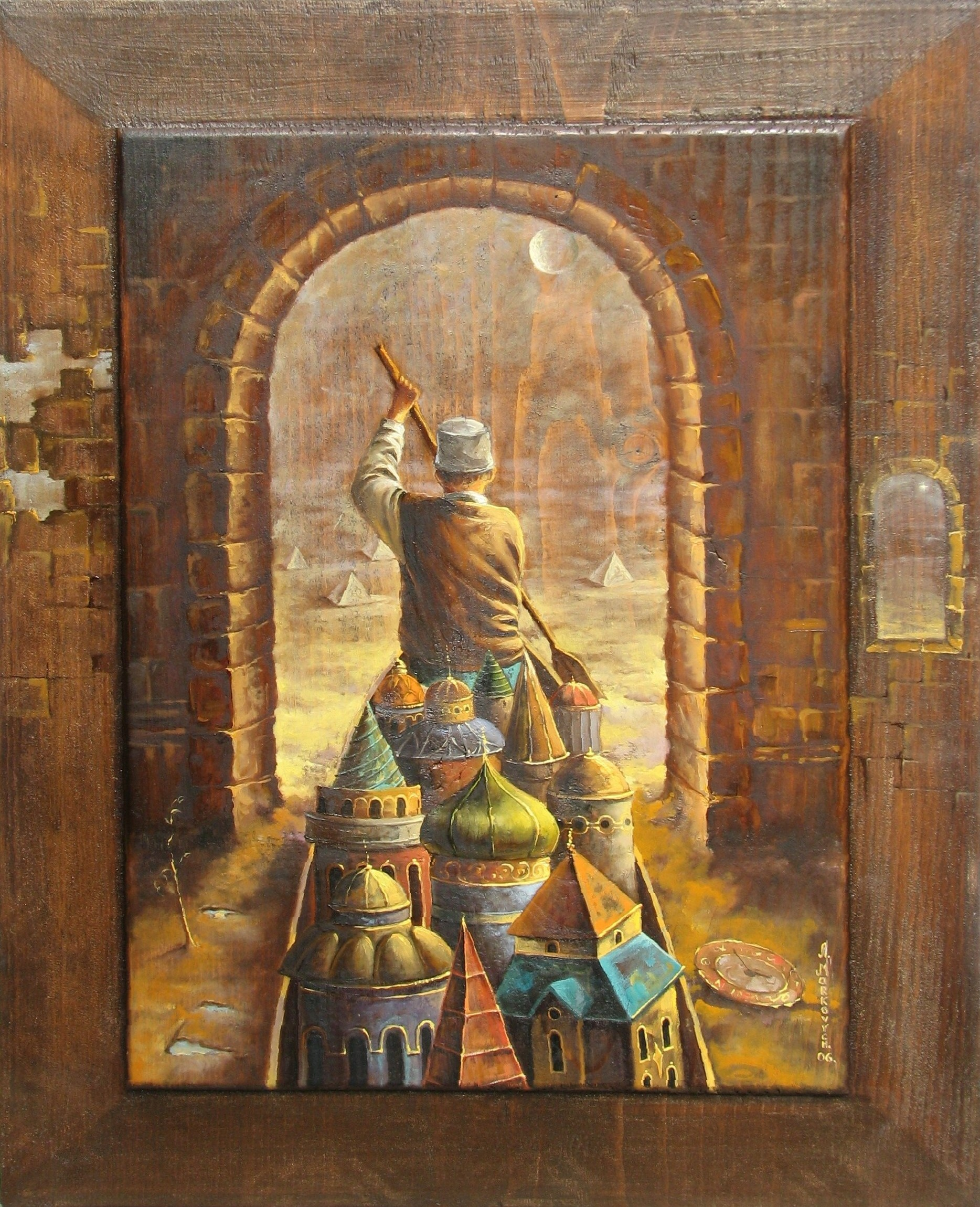 Traveller. Painting in oil on wood, 2006. 40x30 cm.